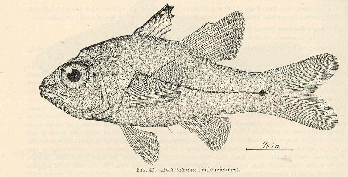 Amia lateralis (Valenciennes) Subject: Amia Tag: Fish